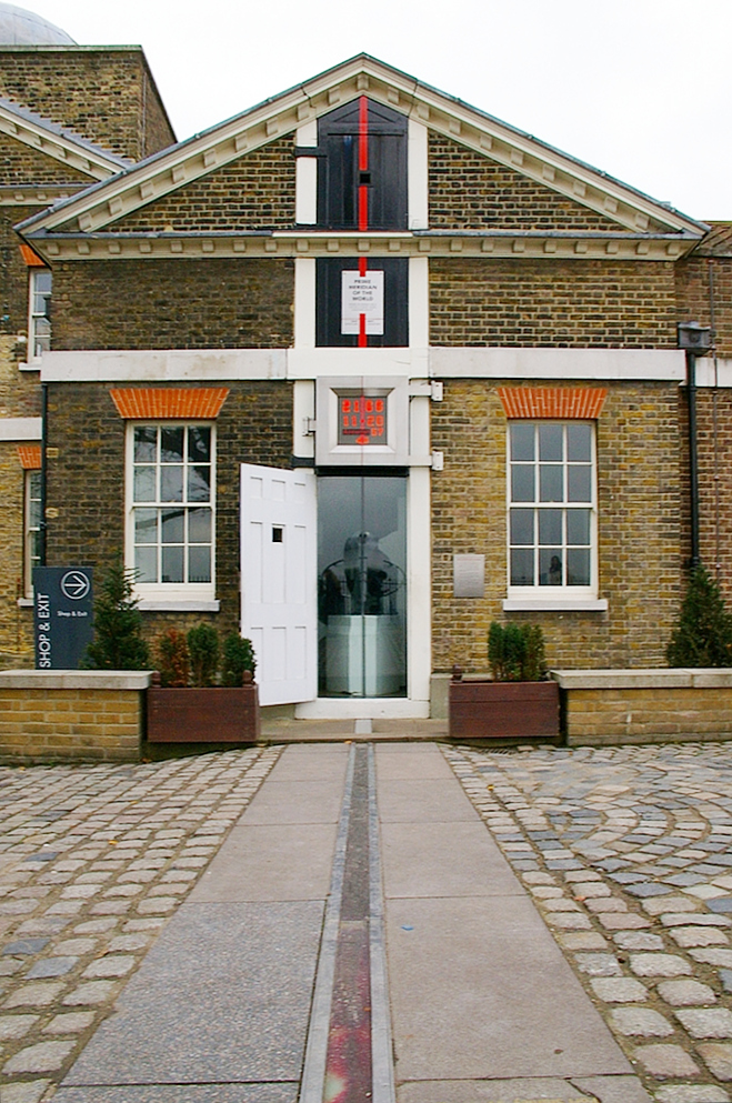 the Prime Meridian , Royal Observatory Greenwich